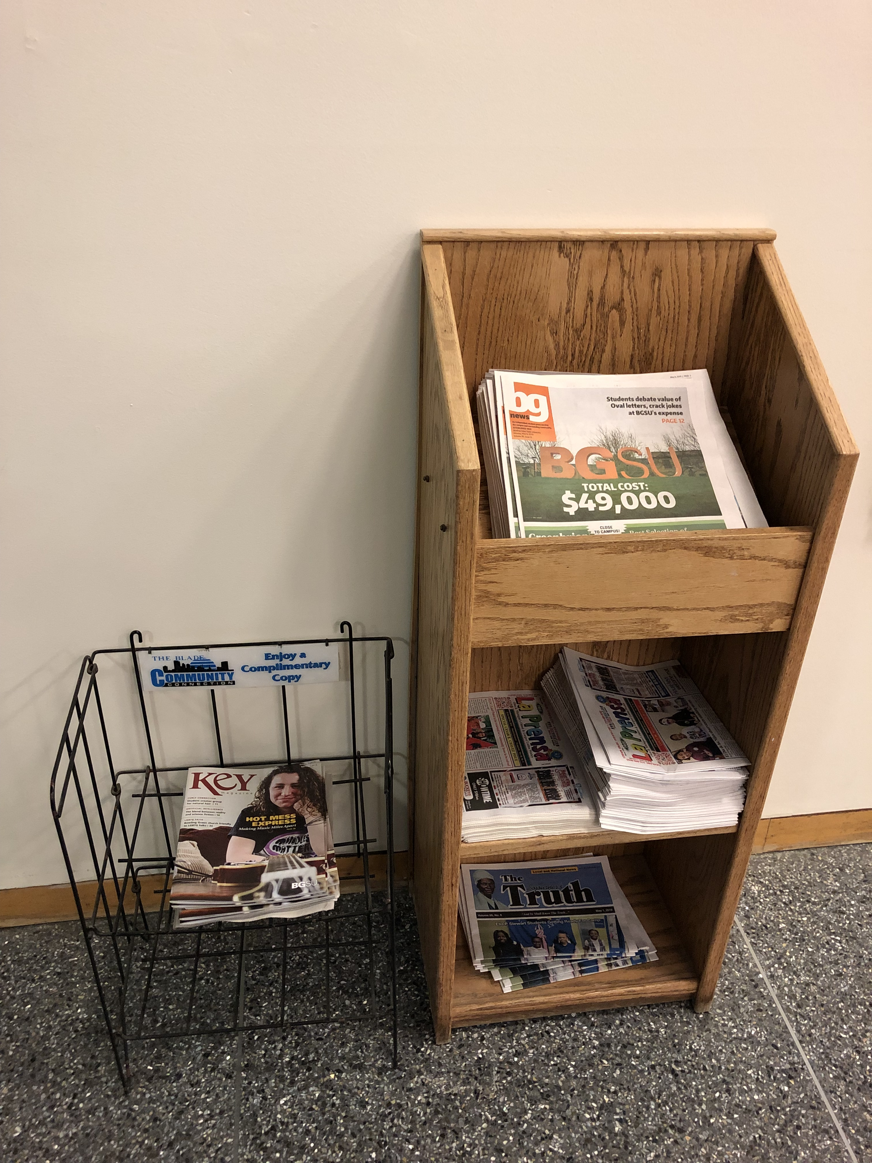 Student newspapers and Magazines at BGSU.